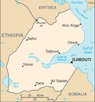 A map of Djibouti, showing major cities.